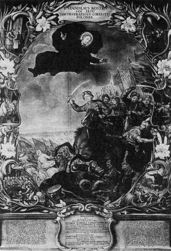 Woodcut from a thesis of 1713 at the University of Olomouc showing St. Stanislaus Kostka, S.J., blessing Polish forces as they engage Turkish forces during the Ottoman Wars